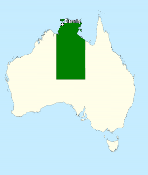 This image incorporates data that is: © Commonwealth of Australia (Australian Electoral Commission) 2009 Division of Lingiari 2010